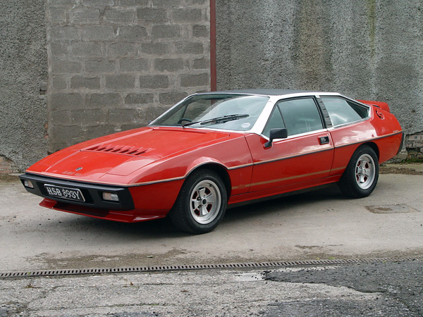 1982 Lotus Éclat 2.2 riviera